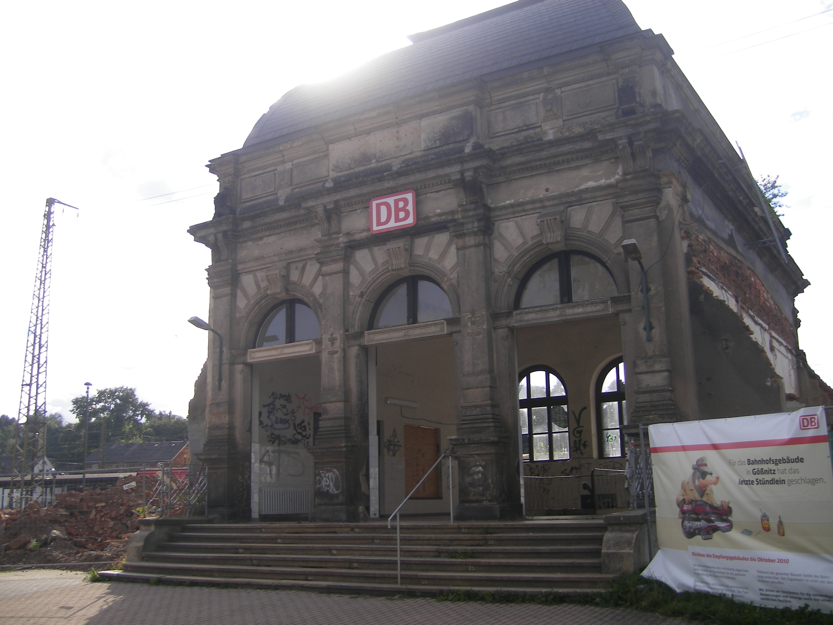 Train station in Gößnitz/Thuringia (Germany) 117 years after dedication.